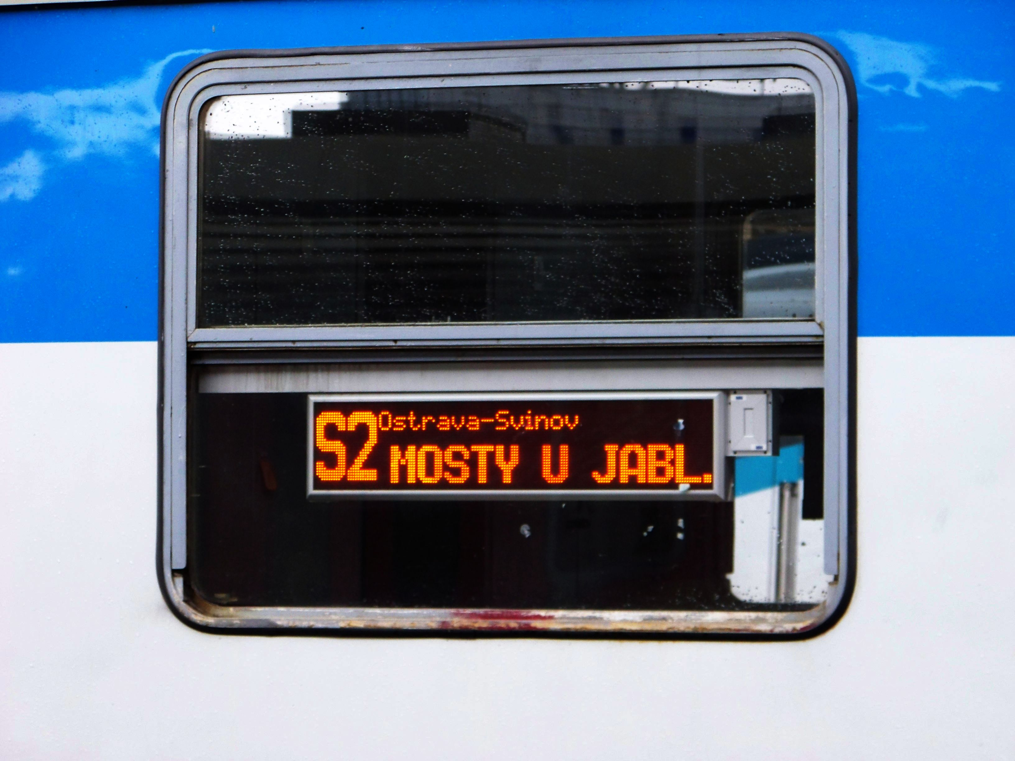 Ostrava-Svinov, Moravian-Silesian Region, the Czech Republic. Train station Ostrava-Svinov. A electric unit train of the ČD class 460.